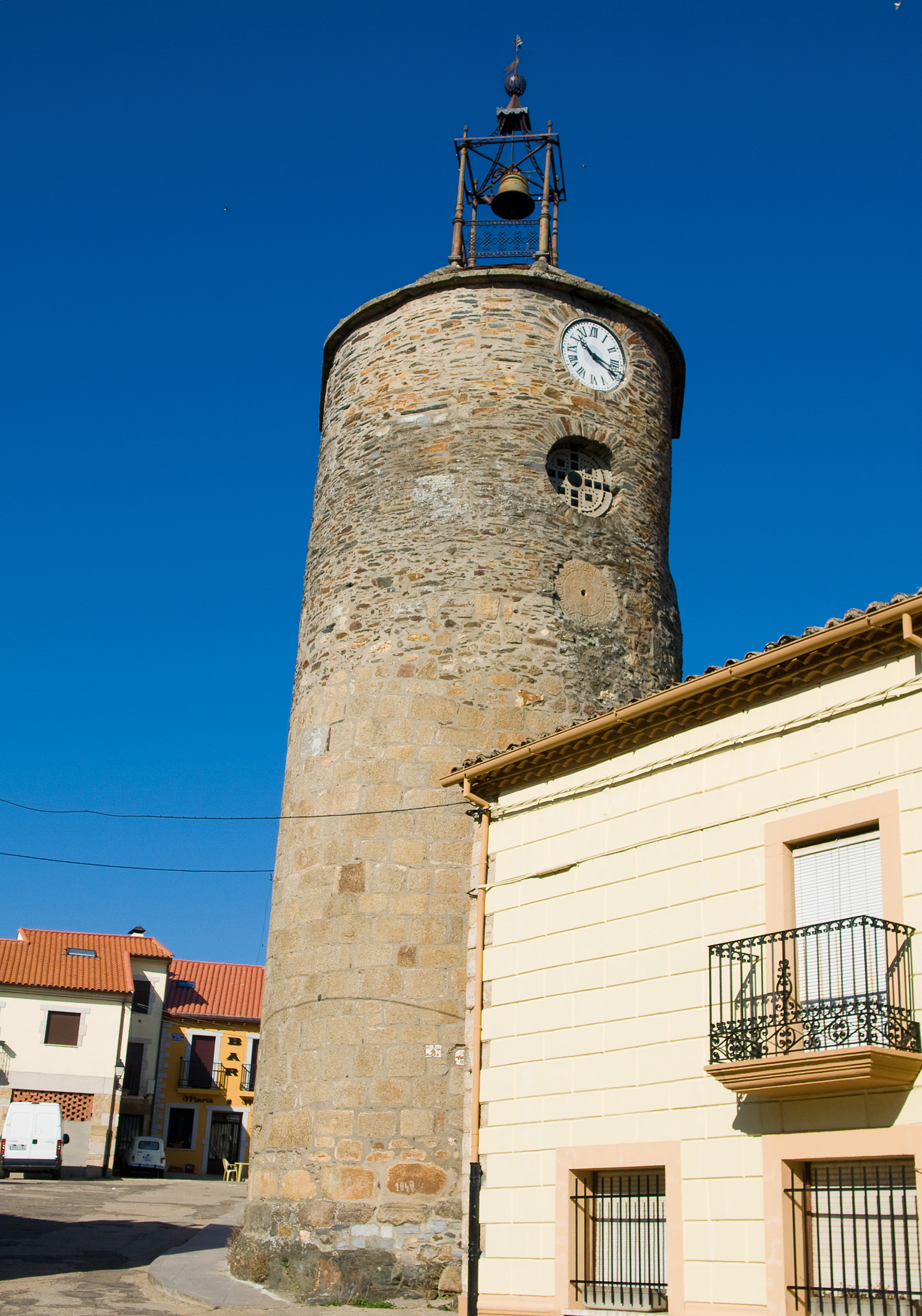 Clock tower in the spanish town of Alcañices, province of Zamora